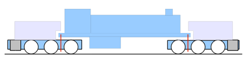 Schematic of Garratt articulated 0-6-0 + 0-6-0 steam locomotive. Cylinders are in gray, articulation points in red.